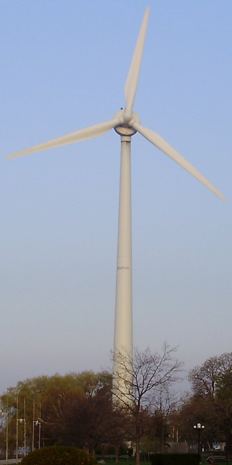 A head-on view of the WindShare 750 kW, direct drive, Lagerwey Wind model LW 52 wind turbine in Toronto, Ontario